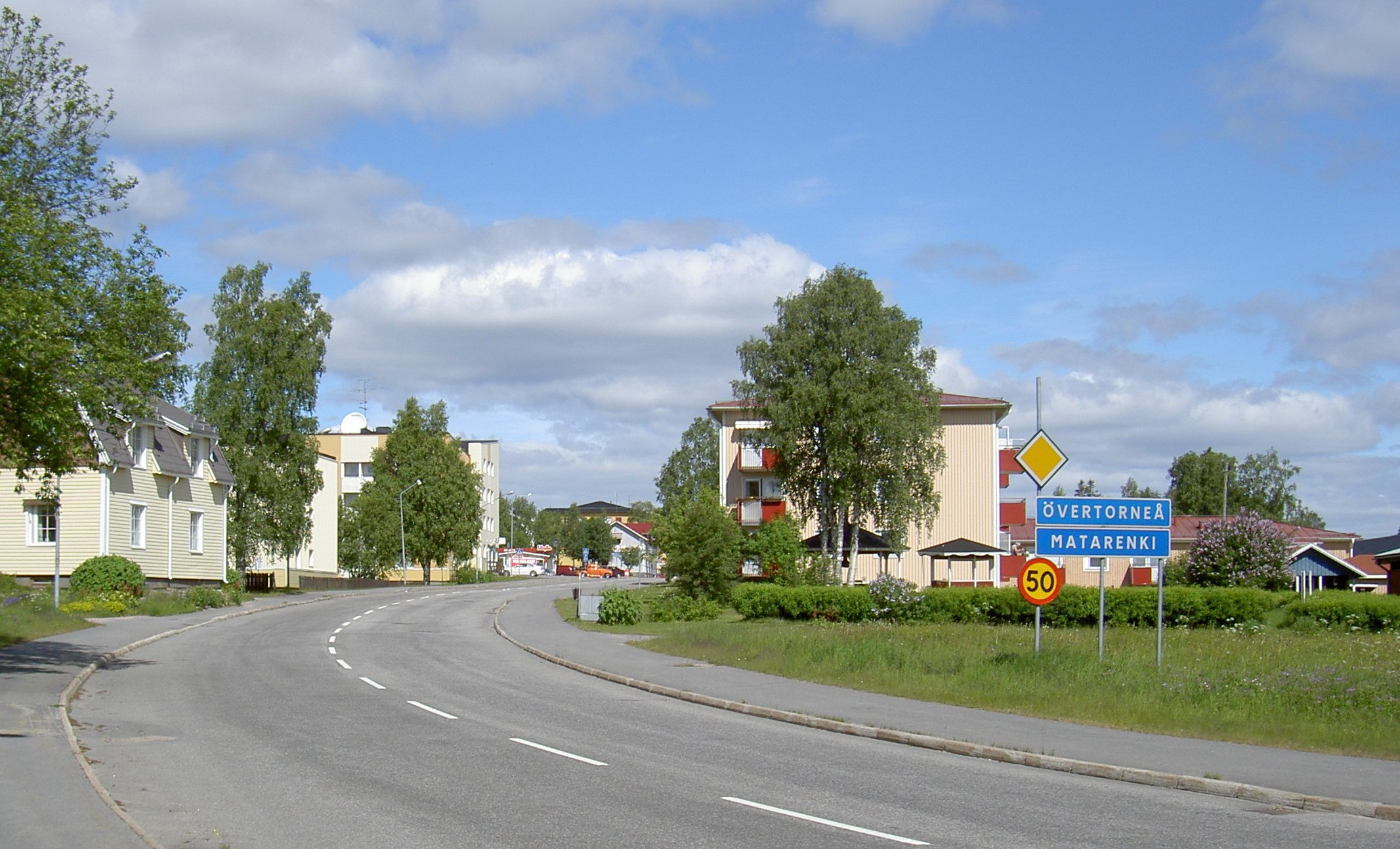 Övertorneå at the eastern entrance (from Finland).